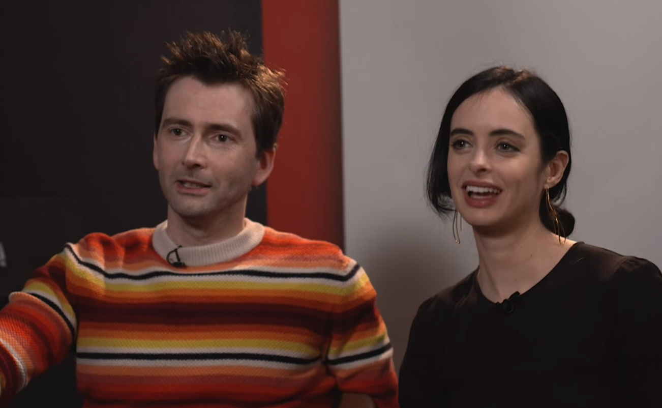 You will not believe! Nerd Rabugento interviewed David Tennant and Krysten Ritter of the Jessica Jones series!